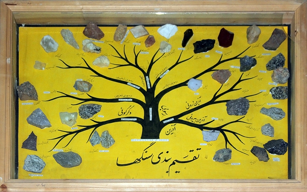 The Natural History Museum of Isfahan is located in a building from the Timurid era in the 15th century. The building includes some large halls and a veranda, which are decorated by muqarnas and stucco